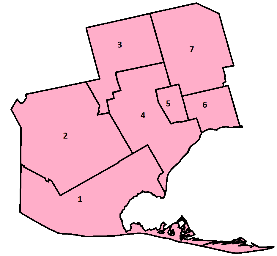 Map of Norfolk County, Ontario's ward map